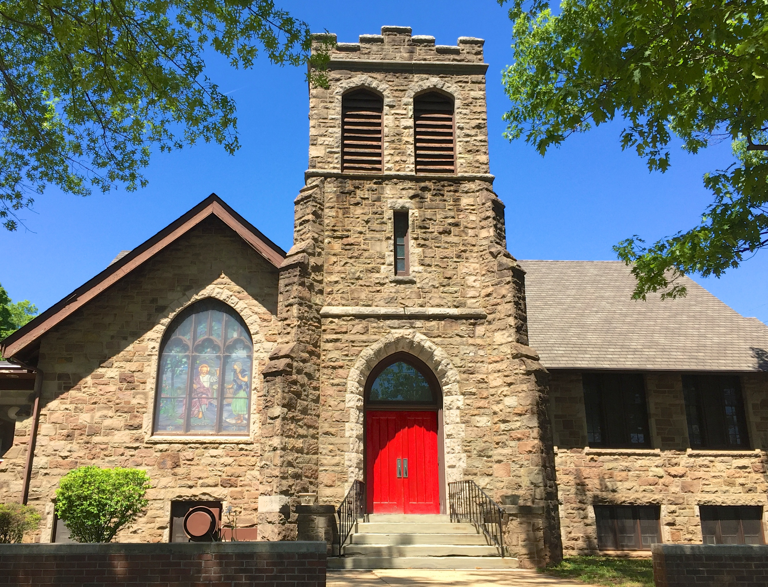 Middlebush Reformed Church located in Middlebush, New Jersey. Built 1919 as replacement for 1834 church. Contributing property.